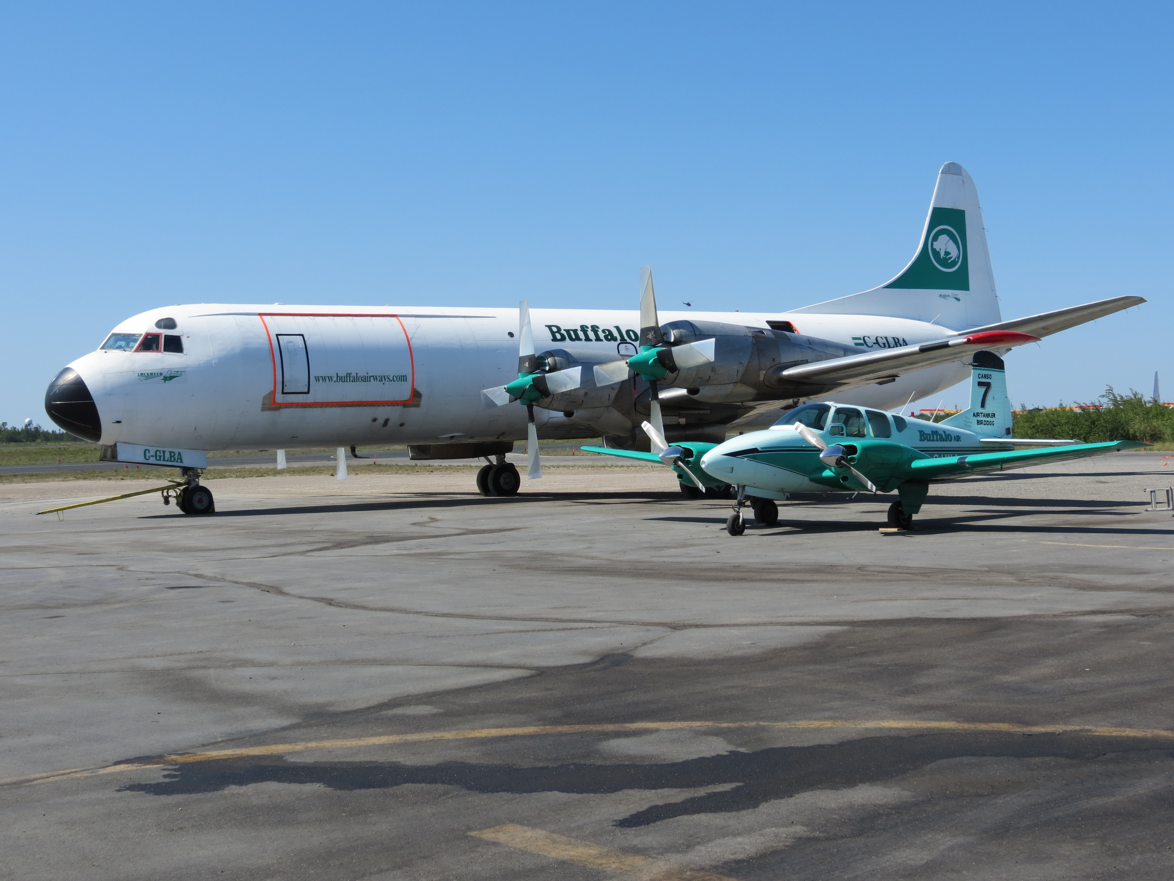 Buffalo Electra and a Beech Birddog waiting for the next mission